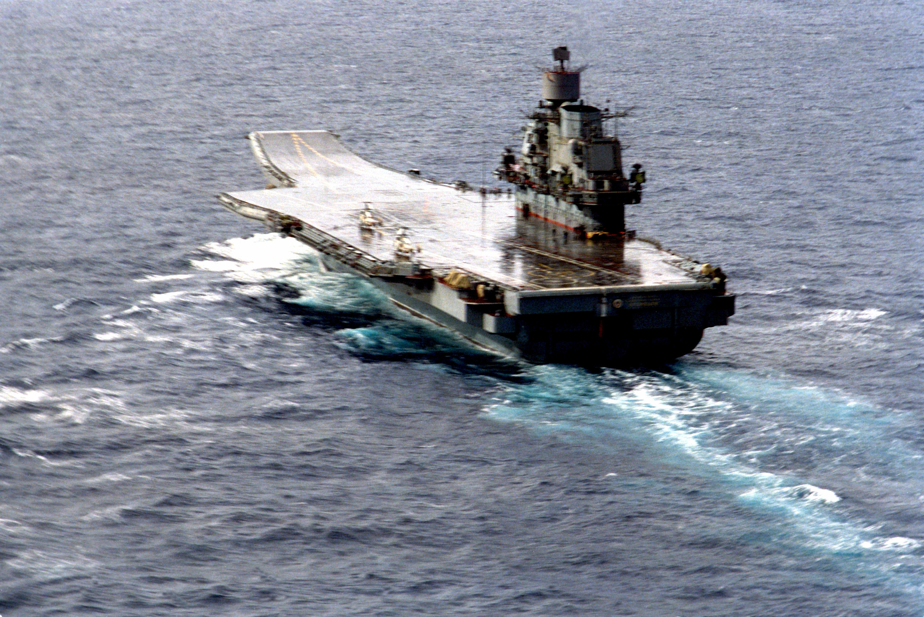 A port quarter view of the Soviet aircraft carrier Fleet Admiral of the Soviet Union KUZNETSOV underway. The KUZNETSOV is en route to duty with the Soviet Northern Fleet. (Substandard image)